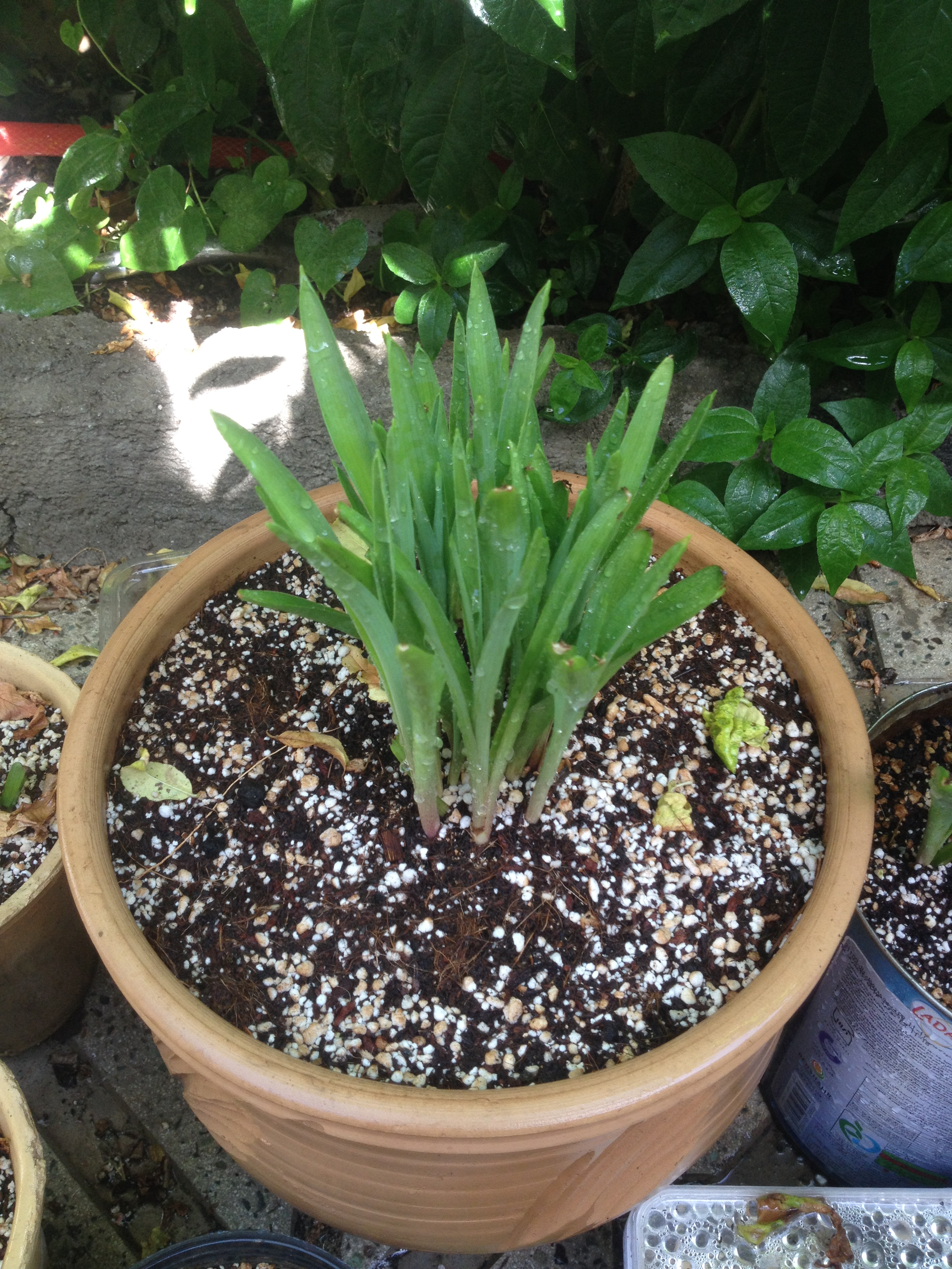 Tube rose view and condition after planting the bulbs for 3 weeks.